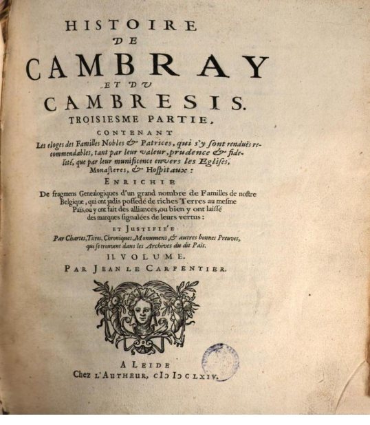 Jean le Carpentier - Histoire de Cambray, et du Cambresis contenant les eloges des familles nobles patrices.. Leiden 1664. Title page